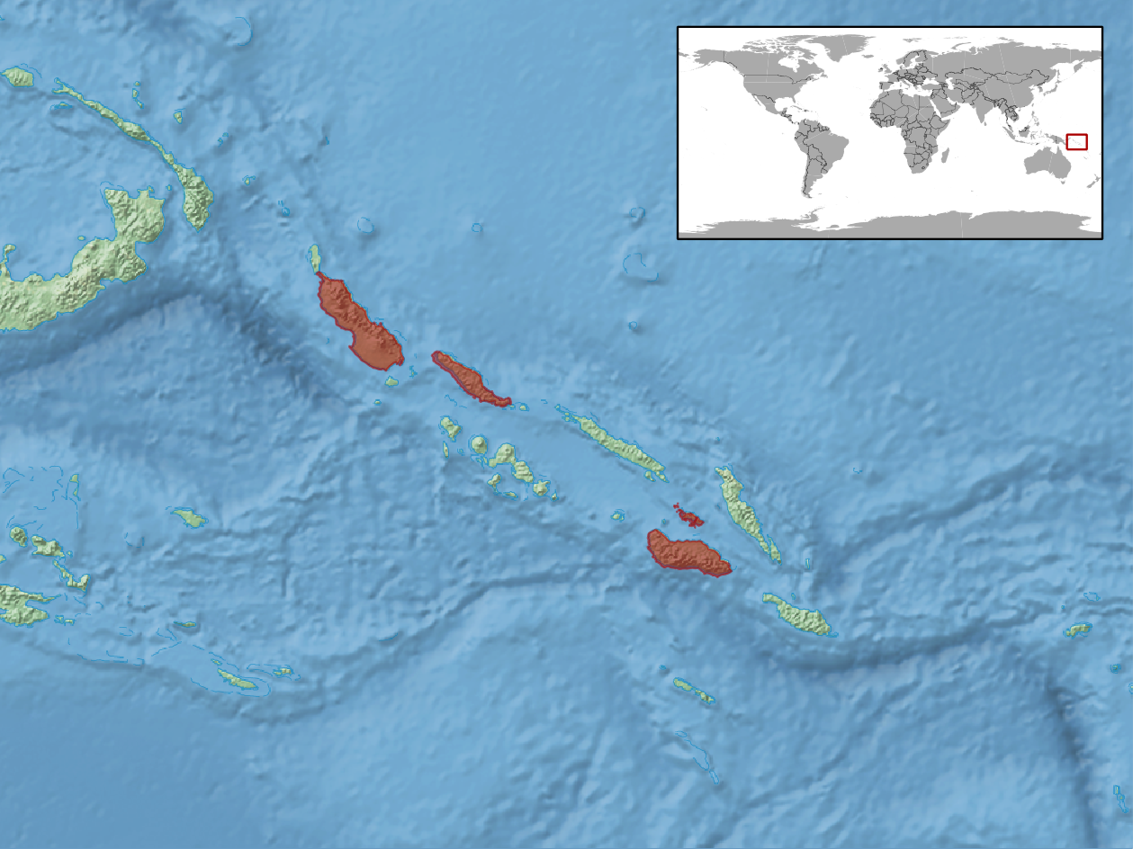 geographic distribution of Tribolonotus blanchardi